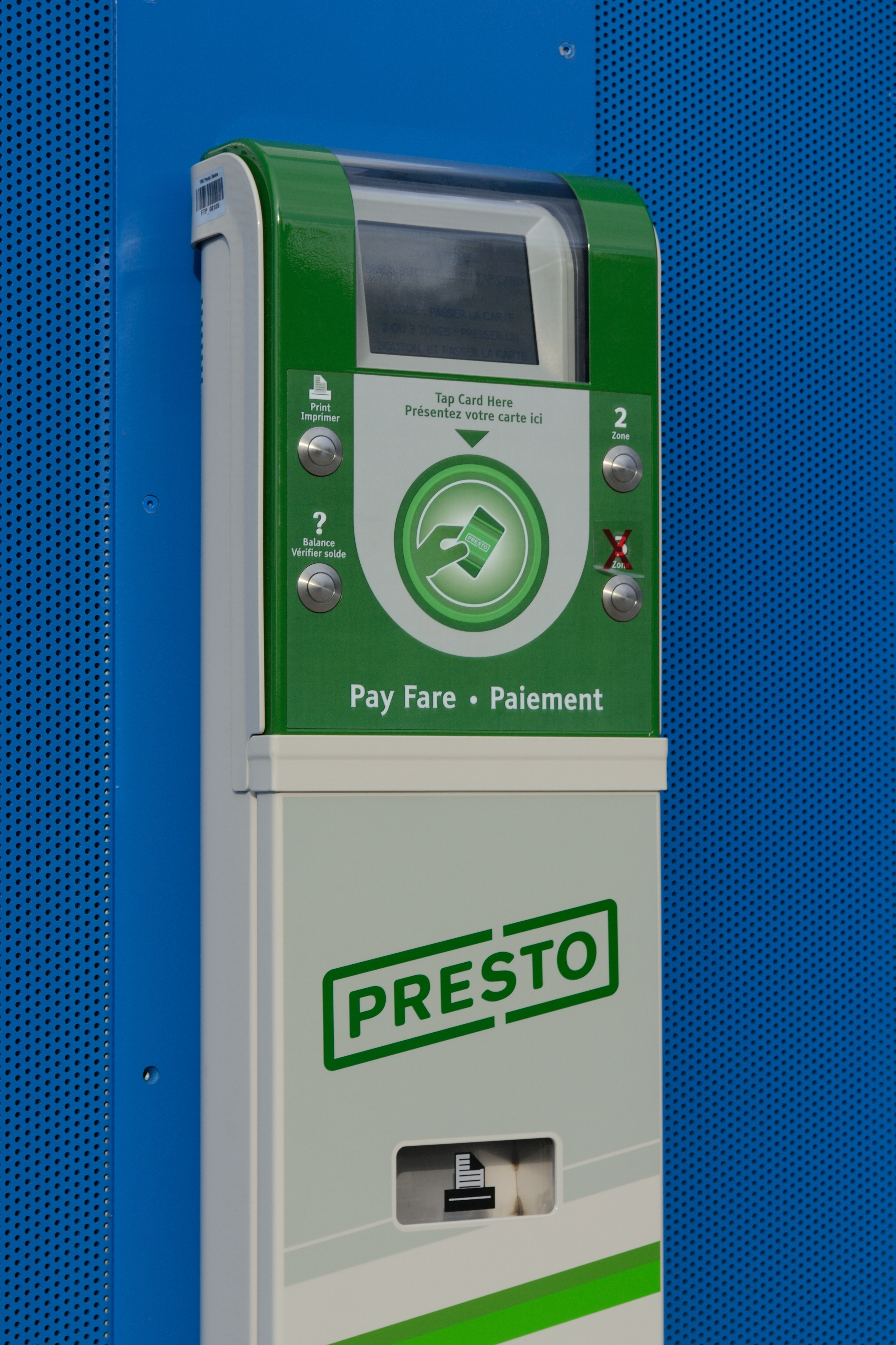 Presto card reader @ Promenade Terminal.